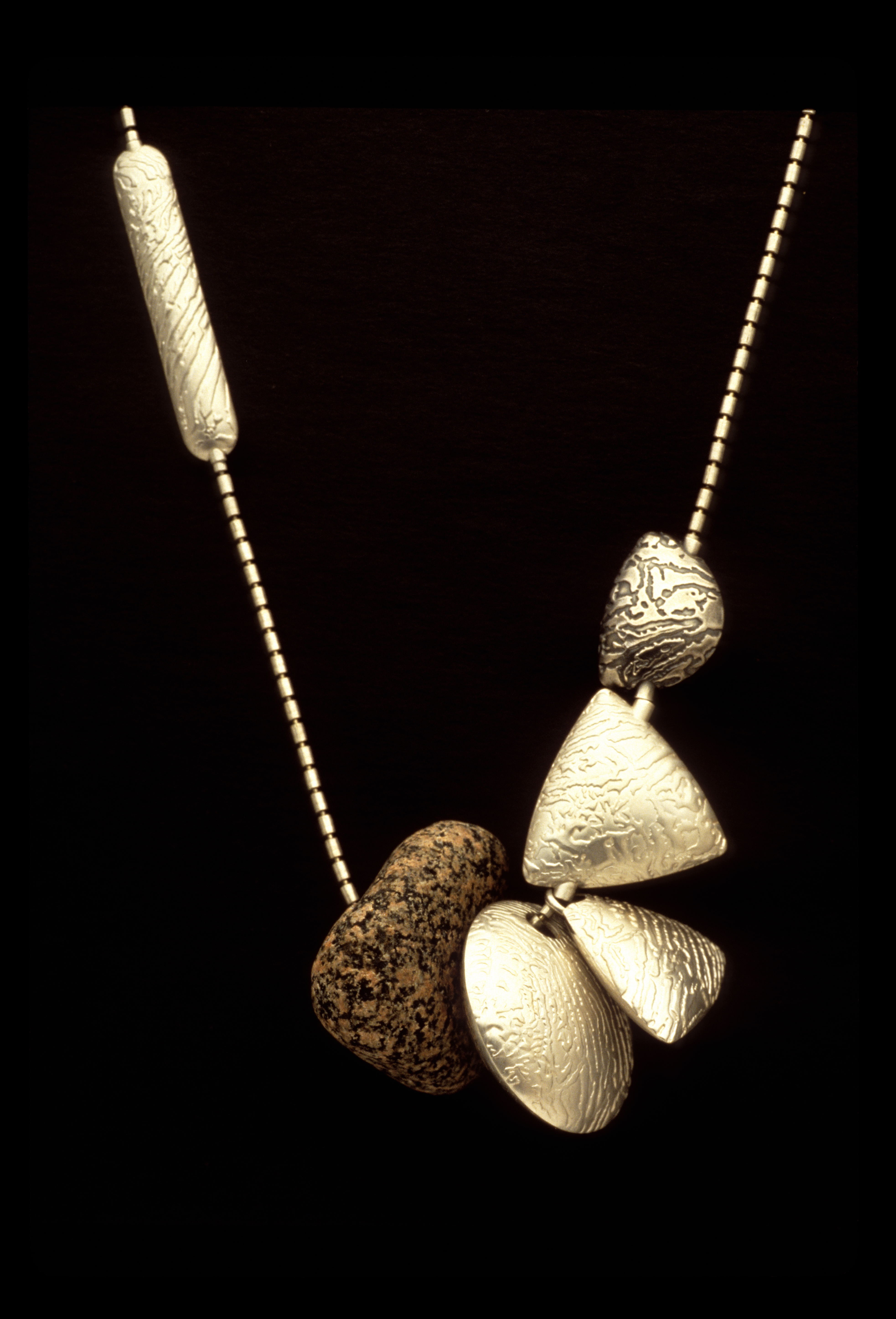 Rock Necklace Series: Hollow fabricated forms with embossed textures both oxidized and matte sterling silver, and a quartz rock on segmented chain. There is one fixed piece all other forms are moveable on the chain. The Rock Series began in 1983 for a solo show at Swan Gallery in Philadelphia, Pennsylvania. I unwittingly entered the continuum of jewelers compelled to wear found and natural objects.